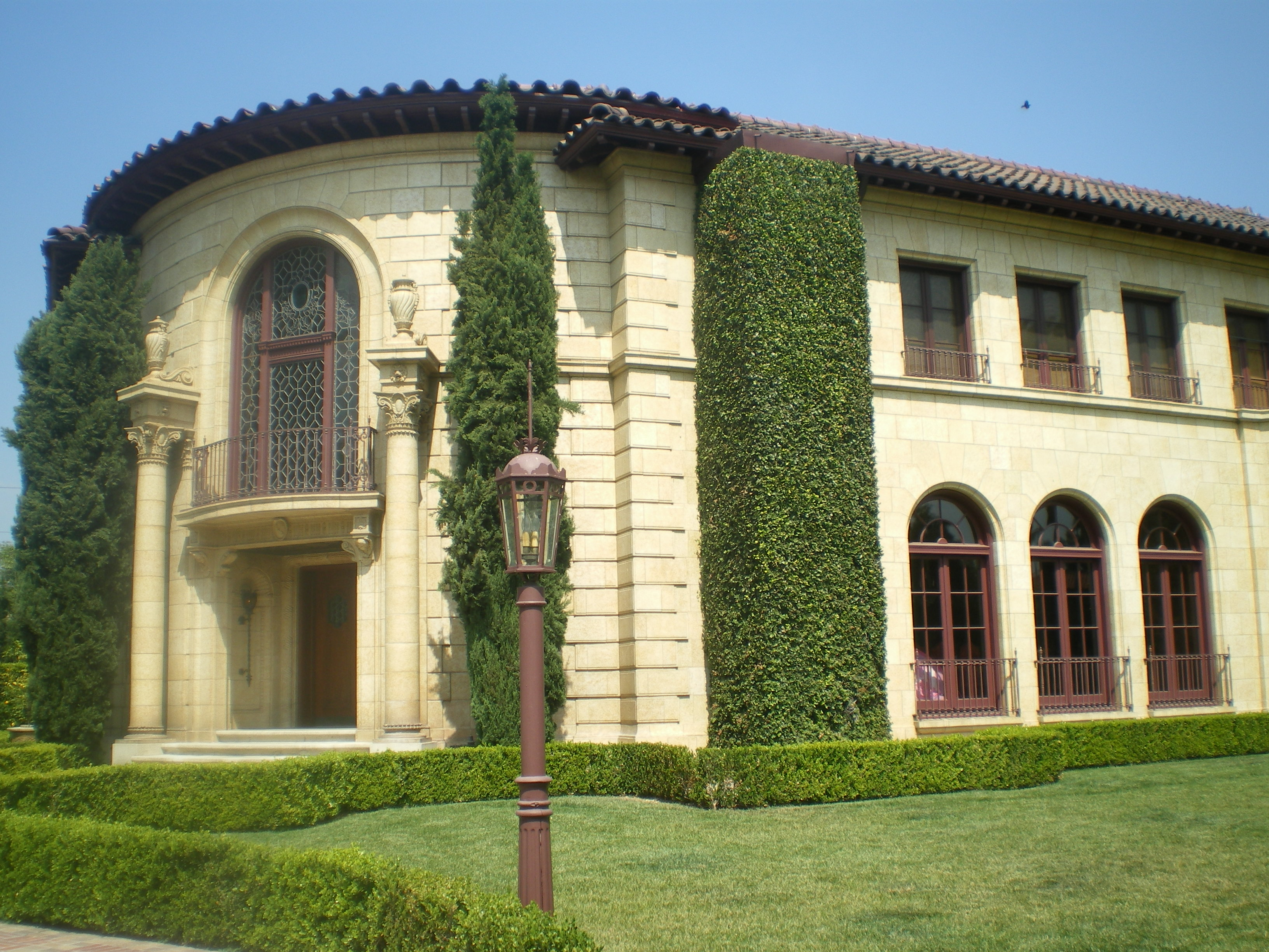 Petitfils-Boos House, 545 S. Plymouth Blvd., Windsor Square, Los Angeles, California